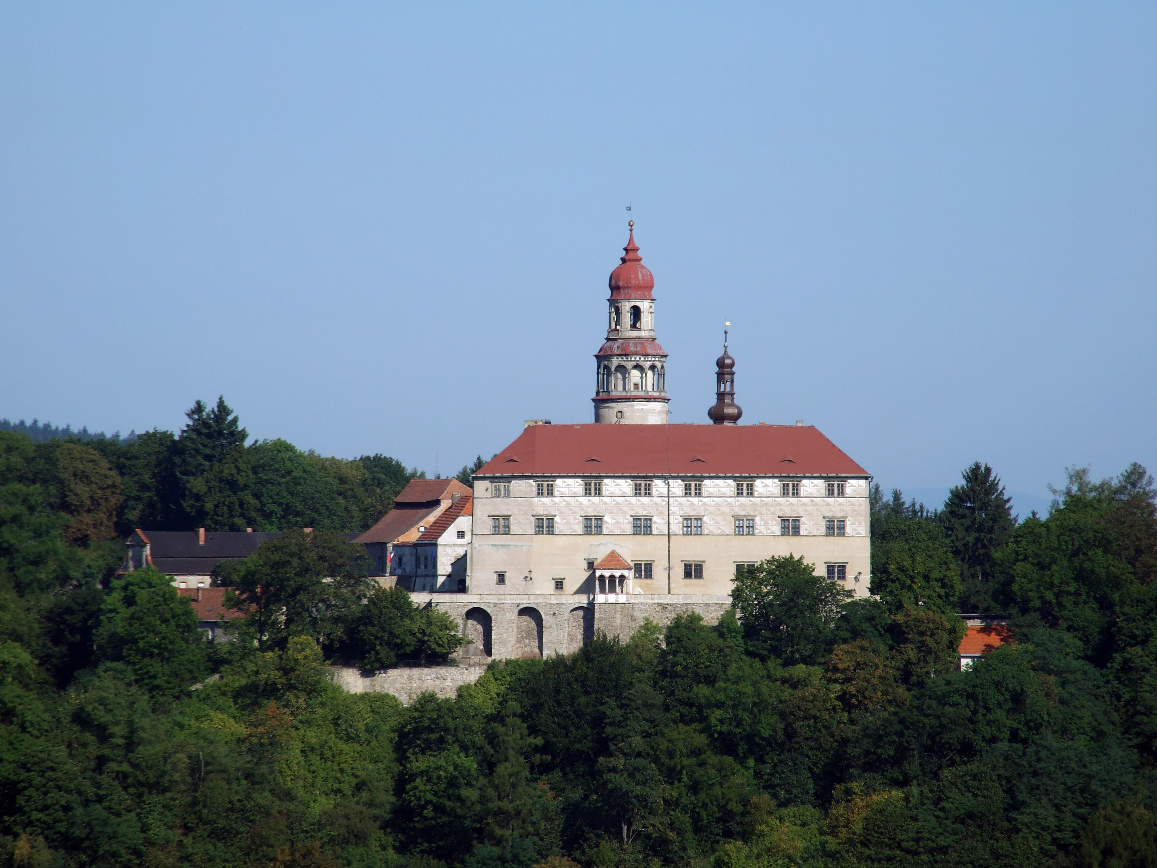 Castle of Náchod Ślůnski: Pałac we sztadźe Náchod, Czesko Republika